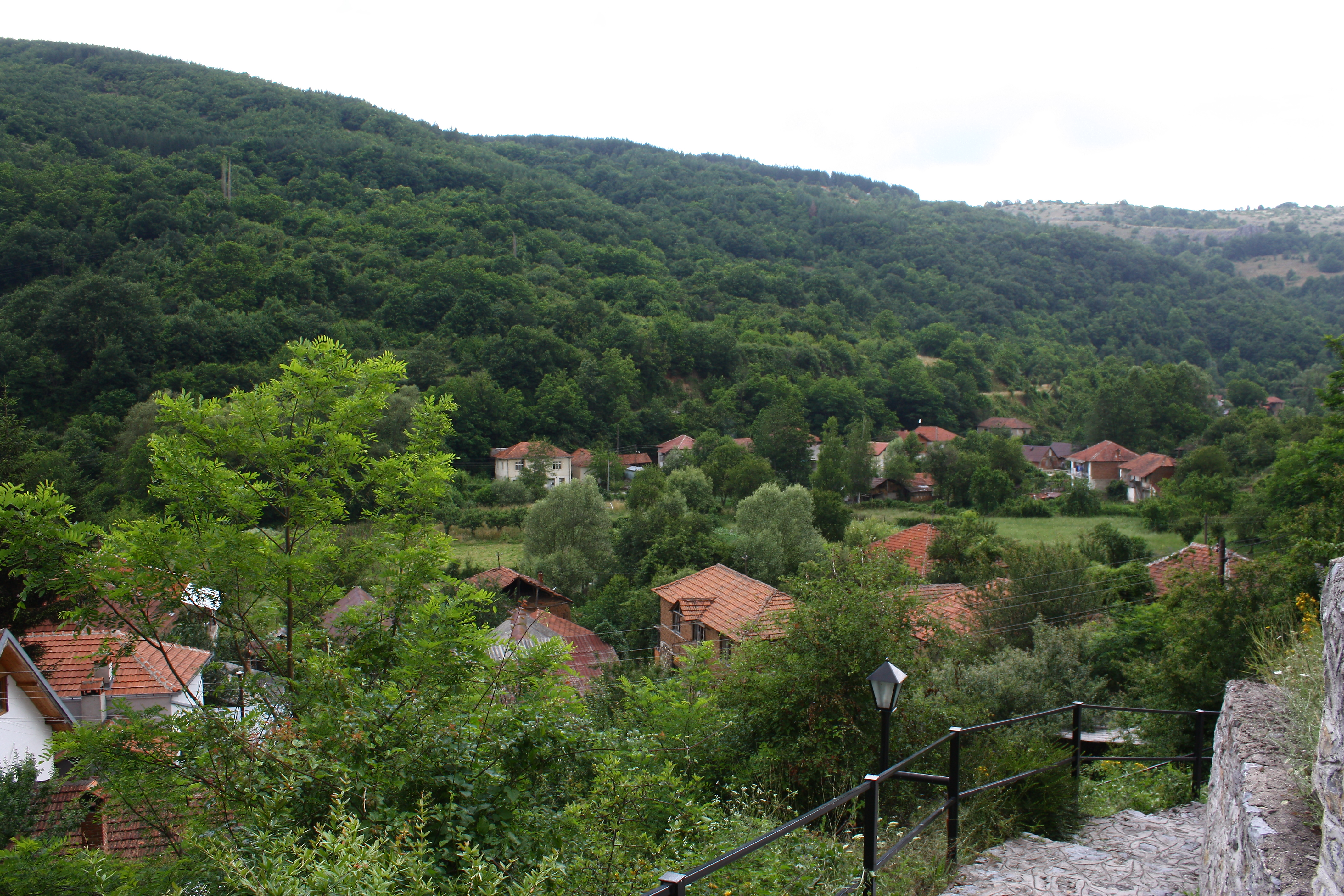 Village Openica, Macedonia